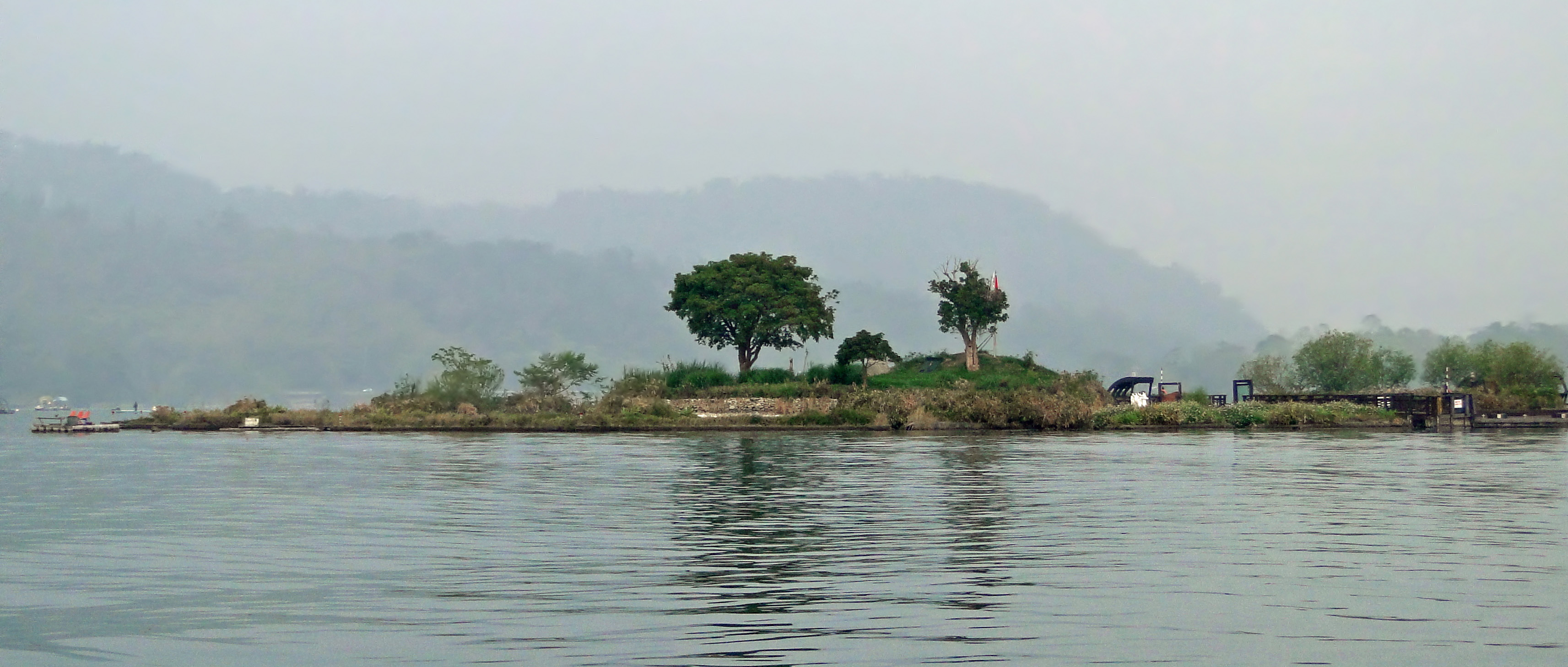 Lalu Island on Sun Moon Lake, Nantou County, Taiwan